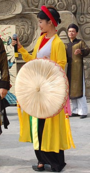 Self made Appears to depict Ao tu than(?). Calliopejen1 (talk) 21:48, 22 November 2008 (UTC)